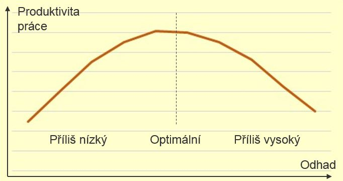 Chart of relation estimated effort and productivity.